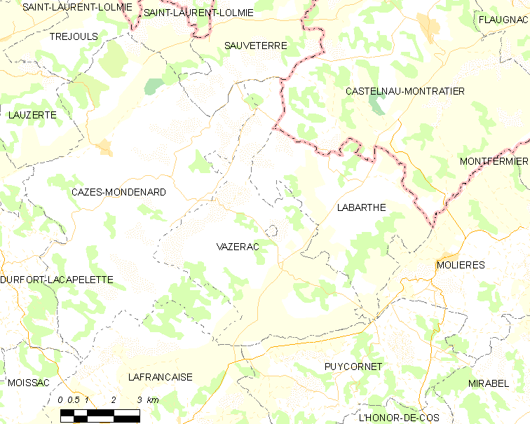 Map of French municipality Vazerac